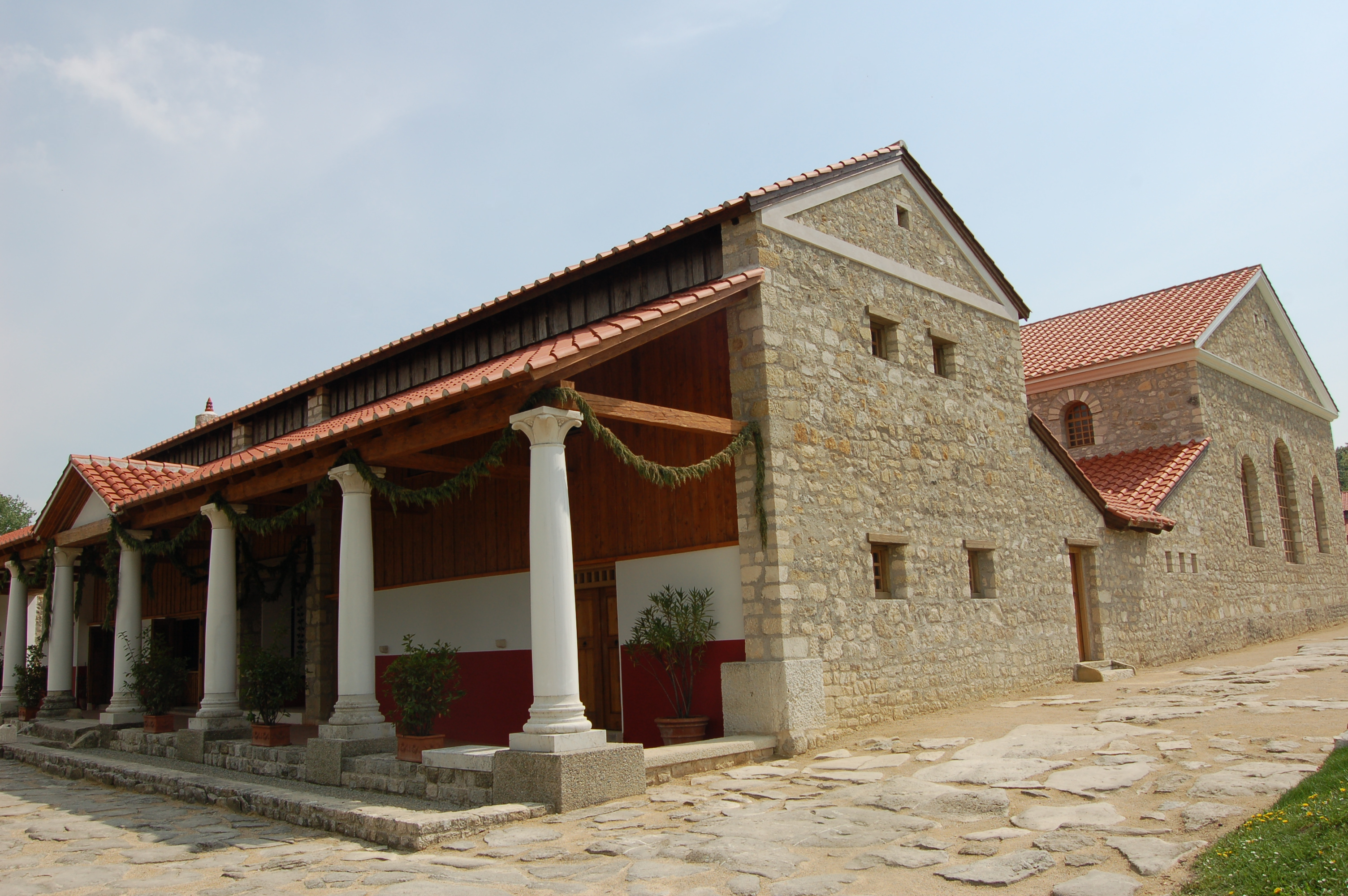 Reconstructed thermae in Carnuntum, Petronell-Carnuntum municipality, Lower Austria